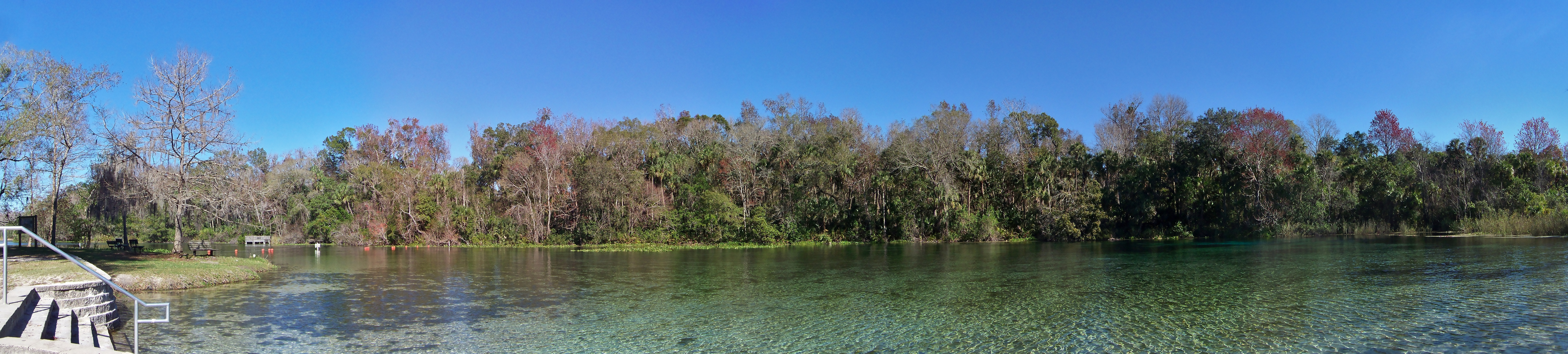 Panoramic view of the Alexander Springs within the Ocala National Forest.